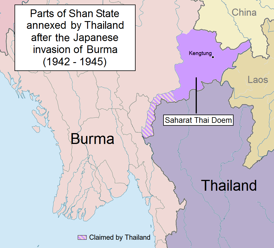 Parts of Shan State annexed by Thailand after the Japanese invasion of Burma. The map shows in purple the actual territories east of the Salween (Kengtung and part of Mongpan State) that were sanctioned by the Japanese authorities to become a new Thai province. Not all the territories claimed by Thailand in the Shan and Kayah states were granted by the Japanese. Note: This is not a map of the farthest penetration of the Thai army accompanying the Japanese military in their Burma campaign.